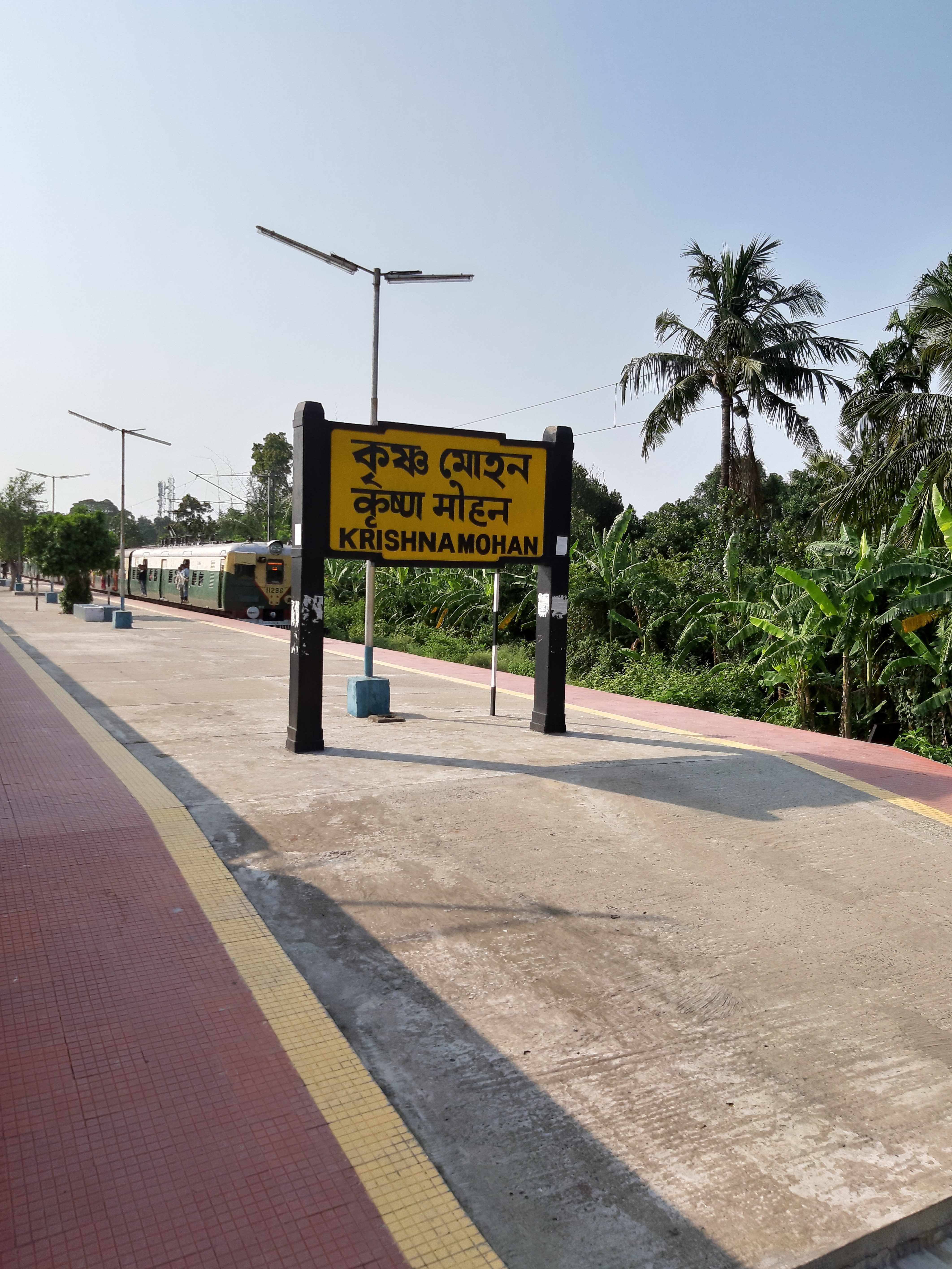 Railway stations of Sealdah south.Baruipur to Laxmikantapur South 24 parganas,West Bengal